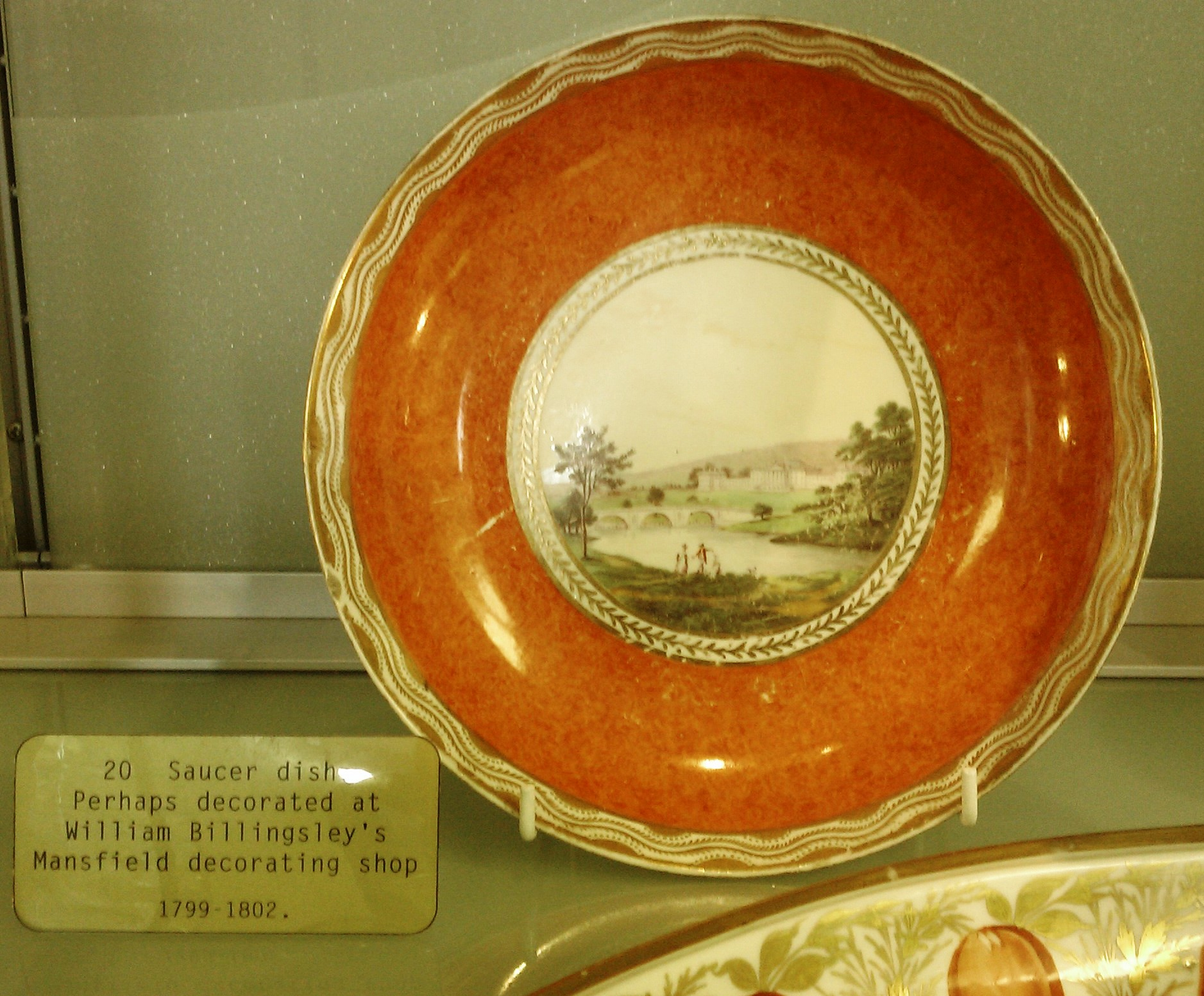 Plate made/decorated by Billingsley company in Mansfield